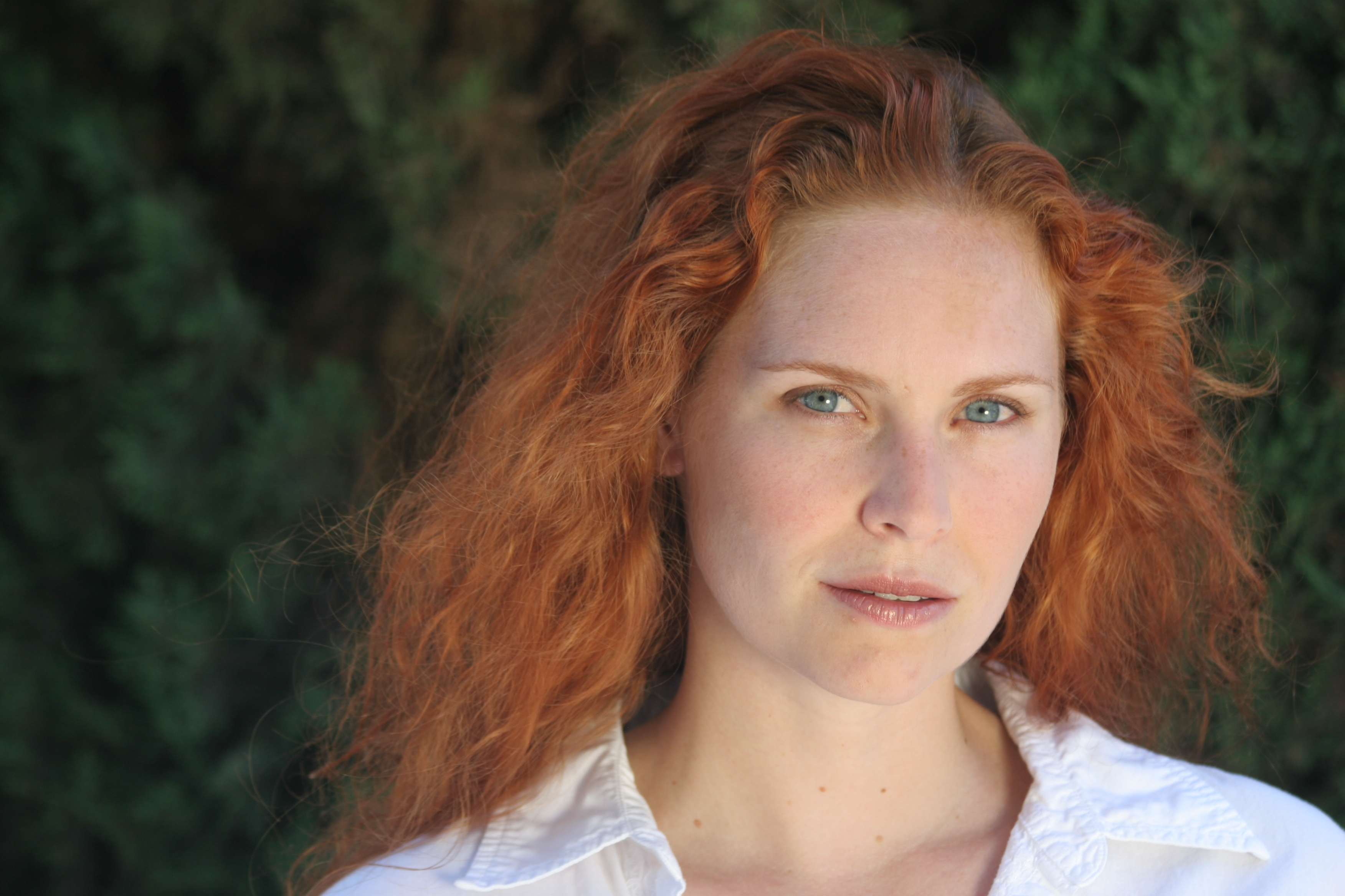 Wanita red hair product